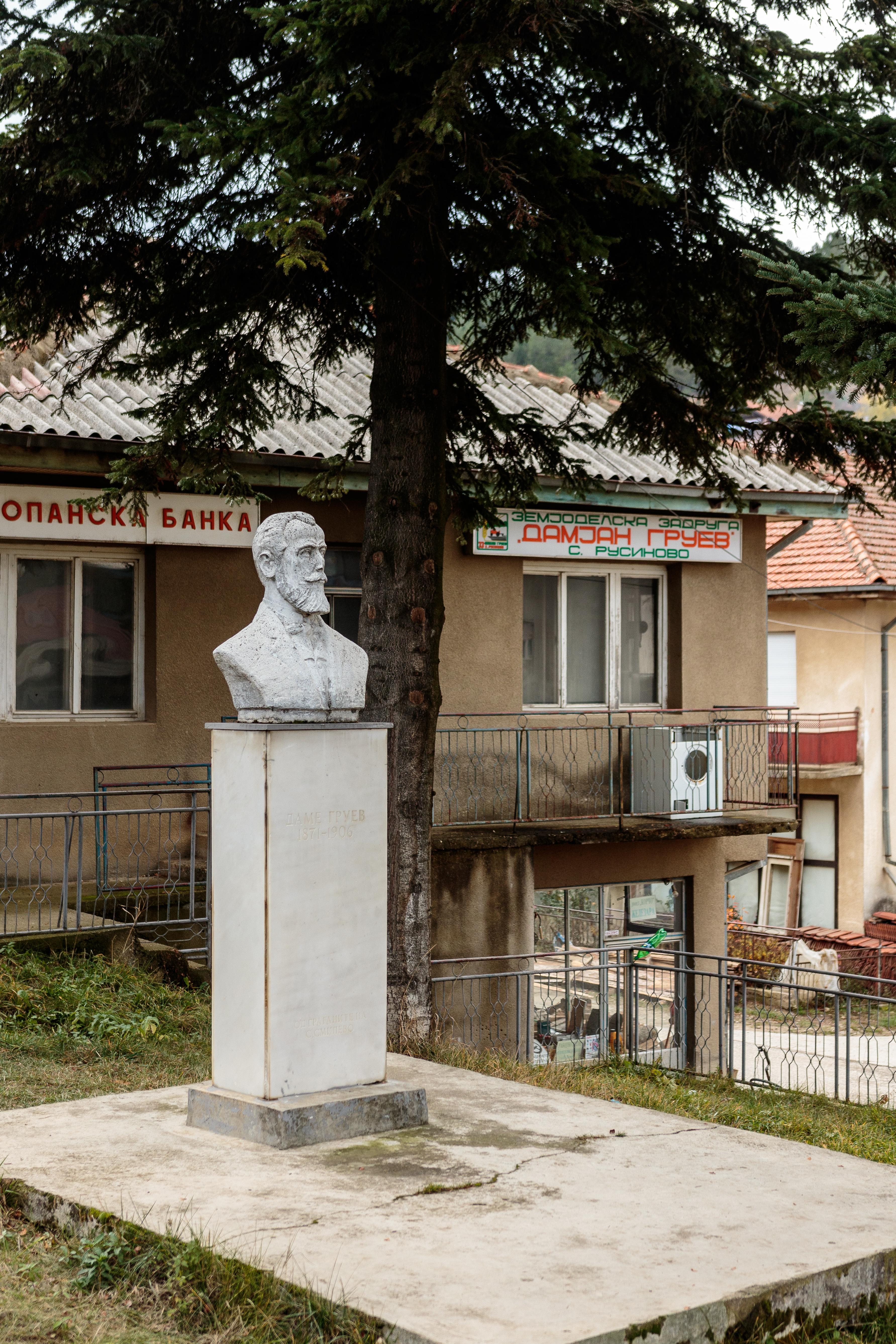 Bust of Dame Gruev in the village Rusinovo